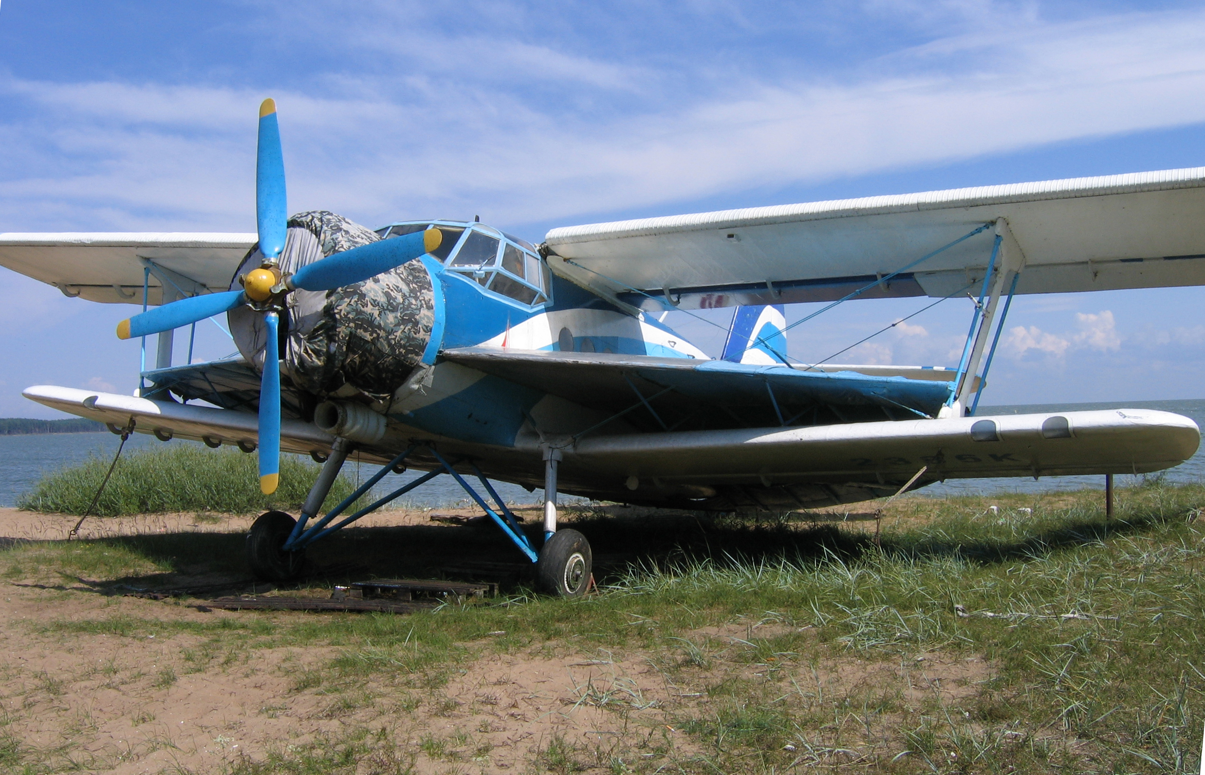 An-2 converted into WIG, Rossitten, Куршская коса, 15-Aug-2006